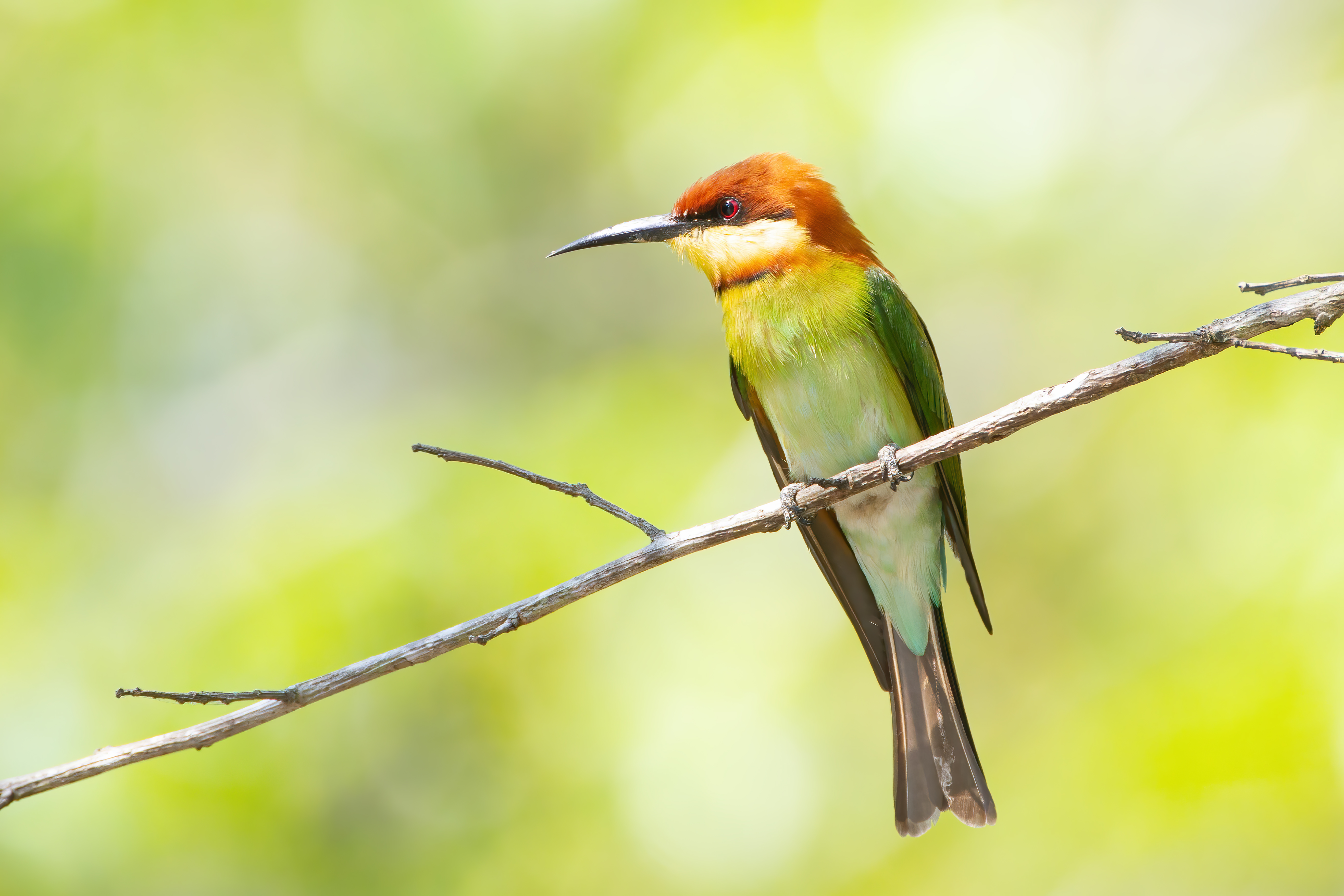 Chestnut-headed Bee-eater (Merops leschenaulti), Kaeng Krachan, Phetchaburi, Thailand